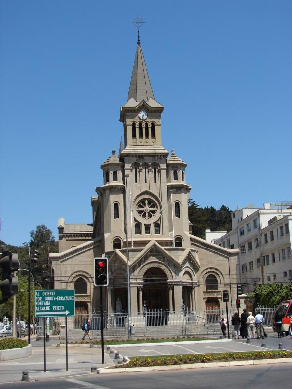 We returned south to Vina del Mar for a day trip. Like Zapallar is a spa and known for its beach life. The city grew out of a vinyard back then.